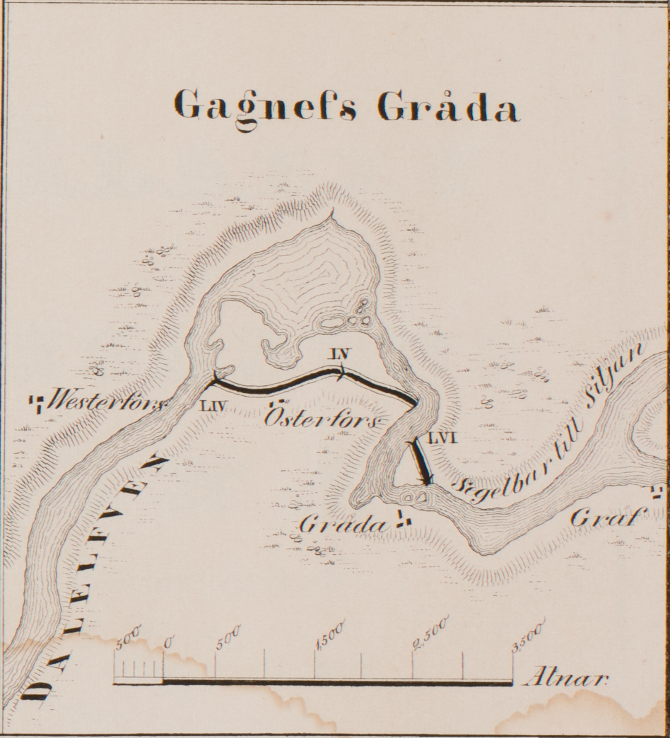 Map of the planned (but never completed) Gråda canal